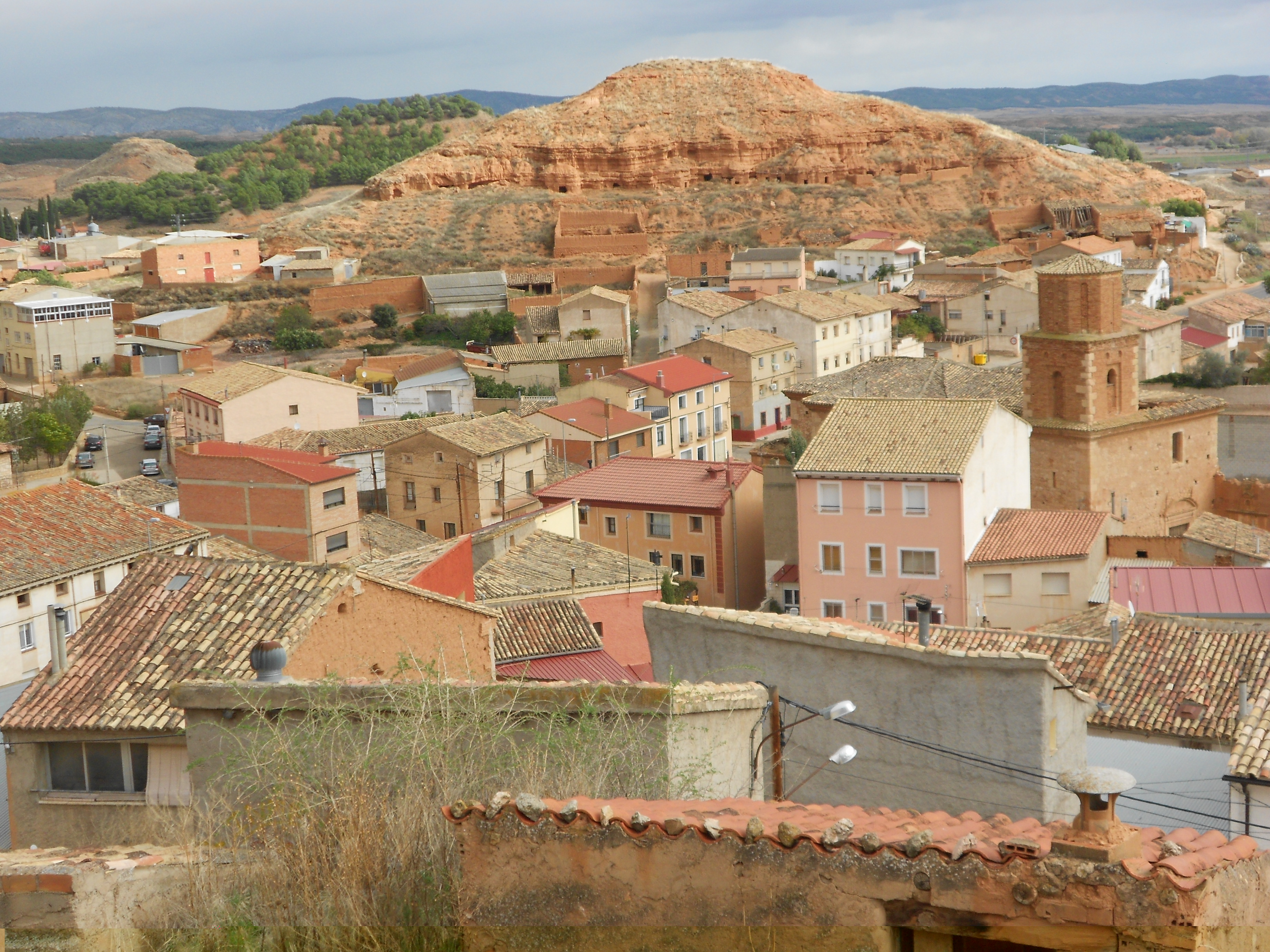 Panoramic view of Ariza (Aragón, Spain).